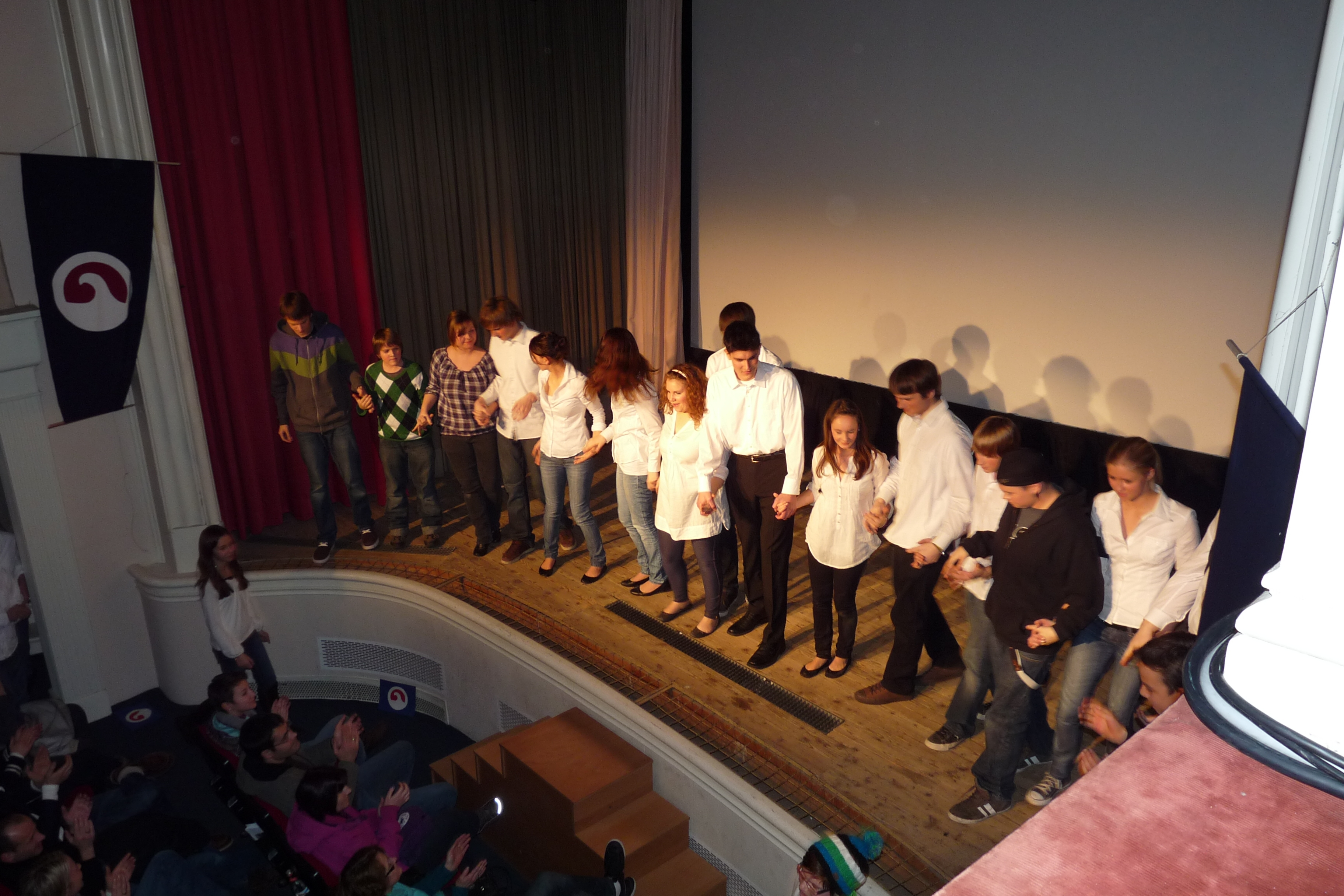 Morton Rhue's "The Wave" played in Hoftheater Sigmaringen